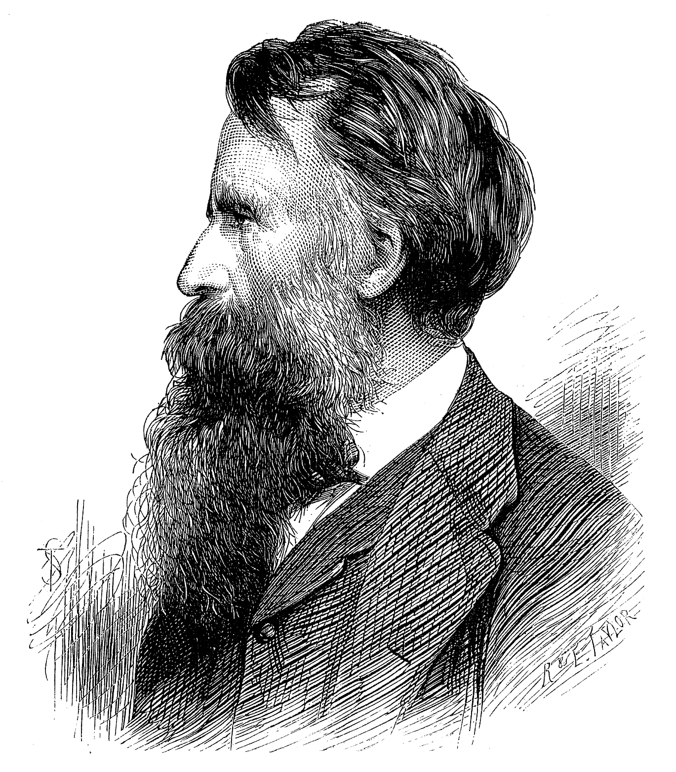 Robert William Thomson, engineer and inventor of the pneumatic tyre.